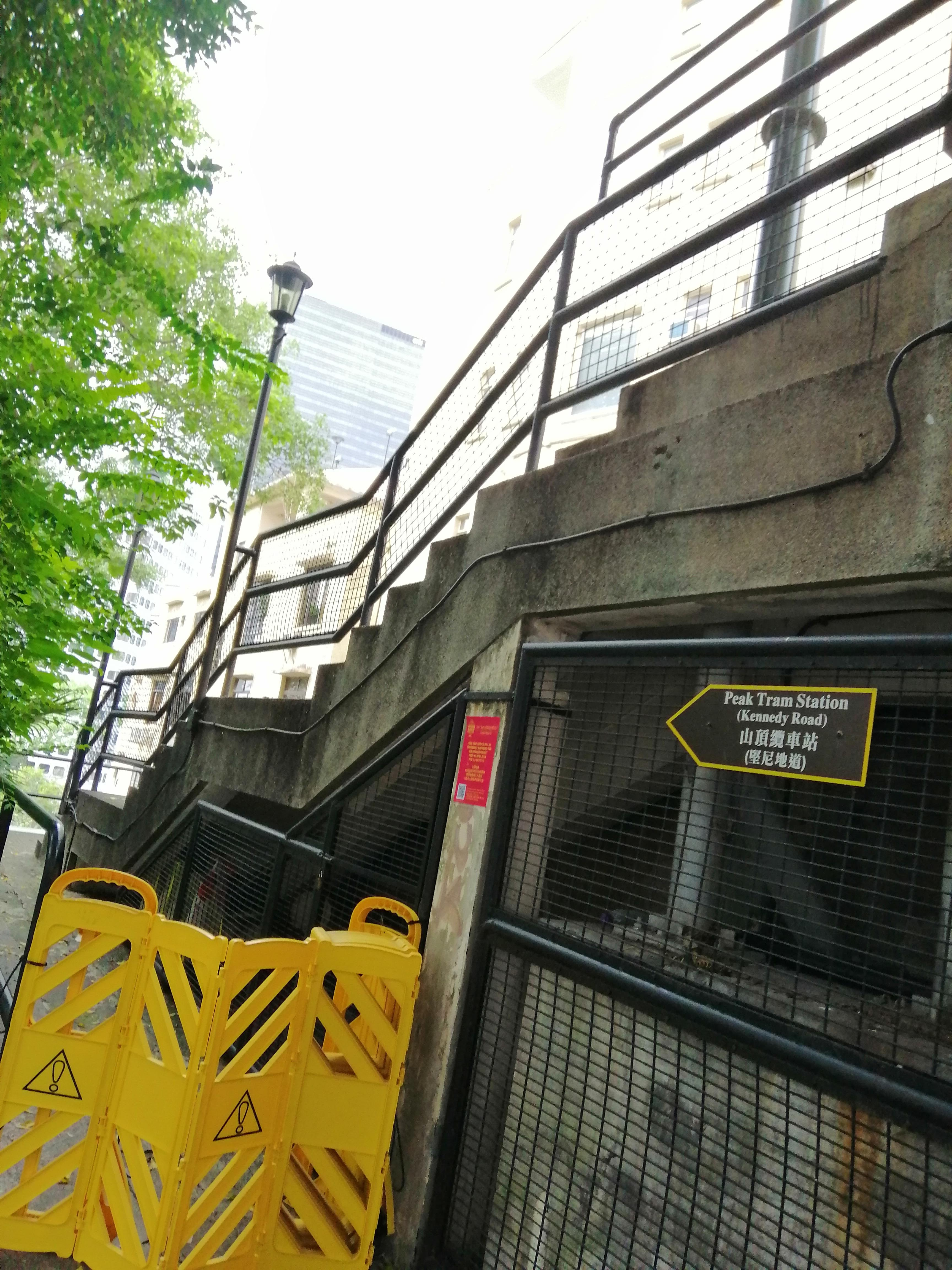 peak tram 4